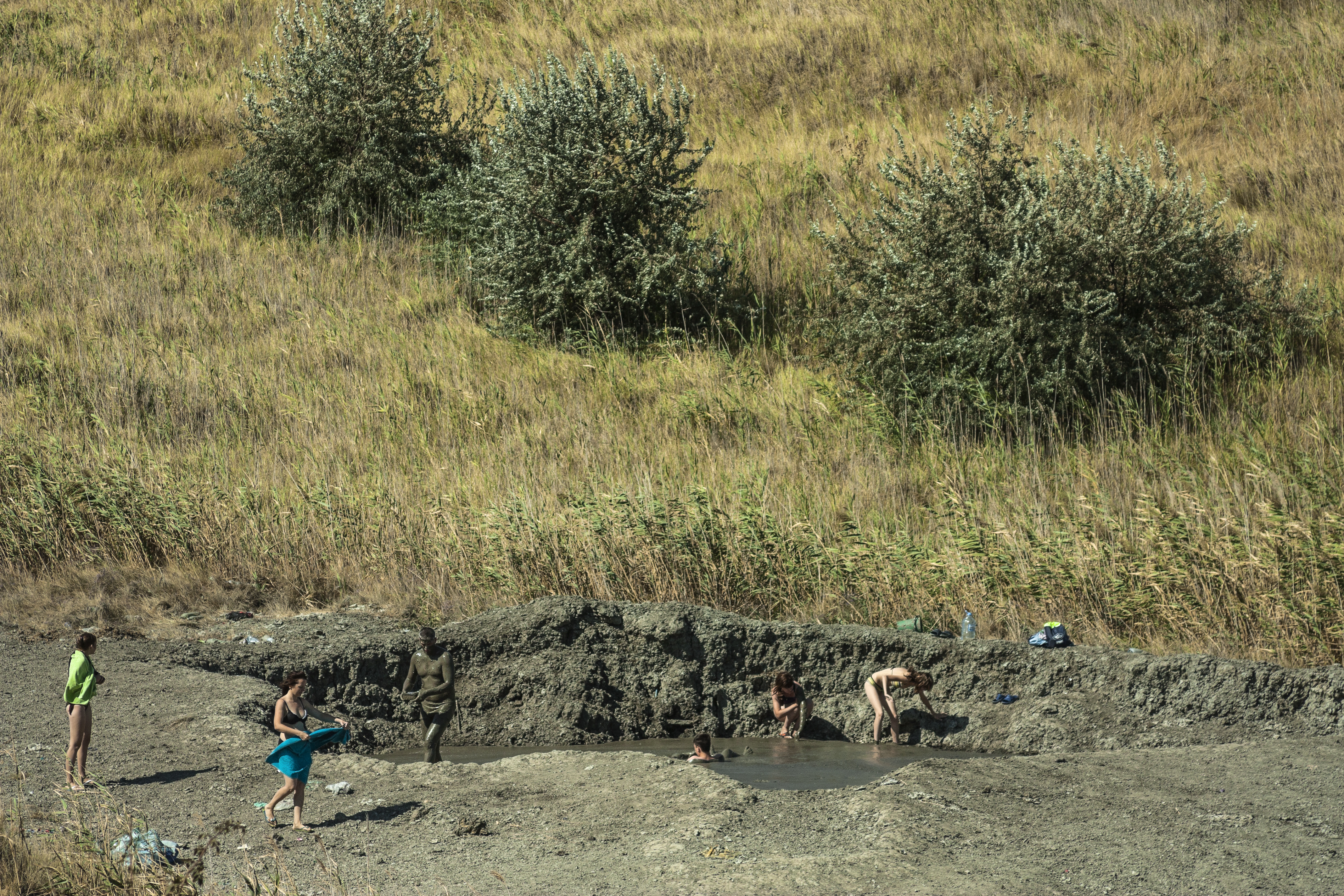 Mud volcano on the cape of "Pekla", Temryuksky district. Krasnodar Krai